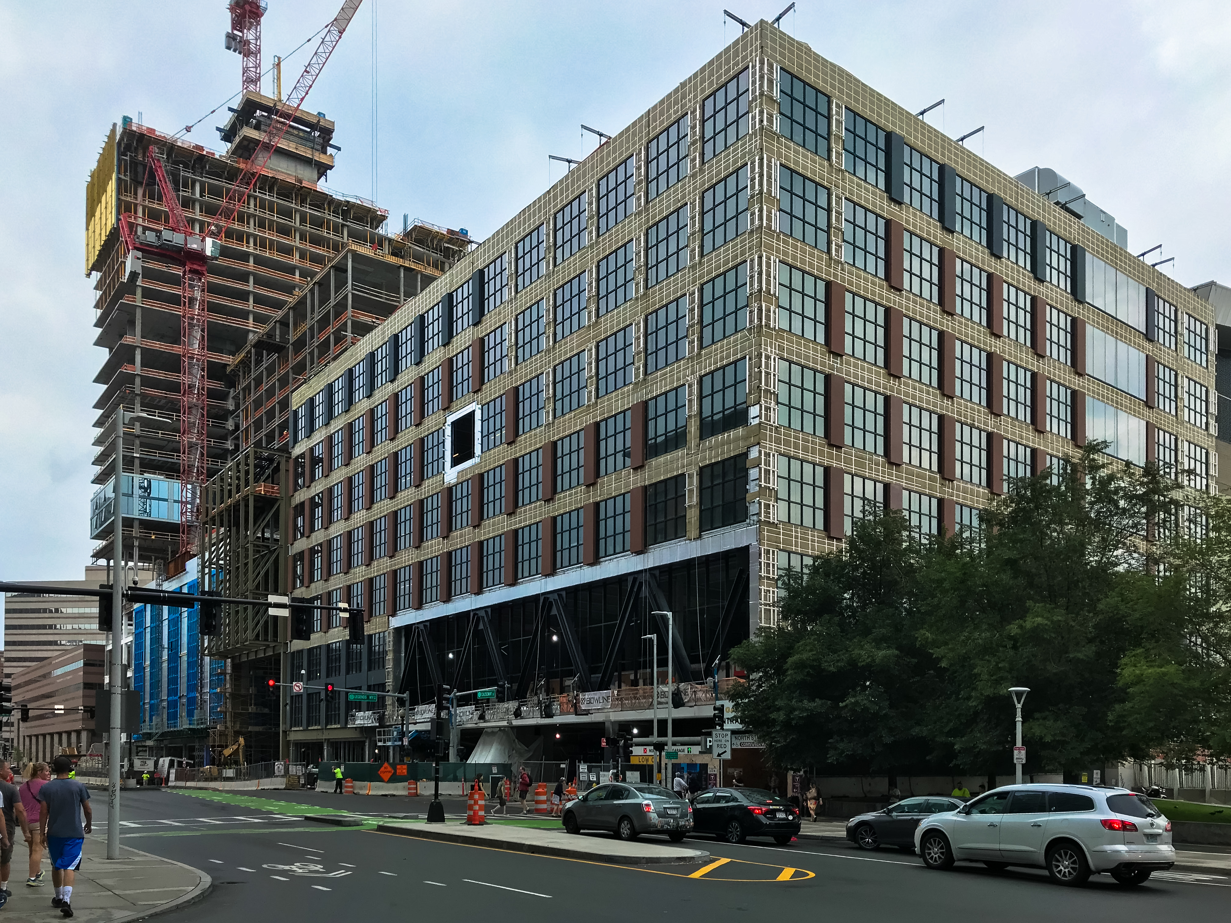 Development near North Station on the site of the former Boston Garden.